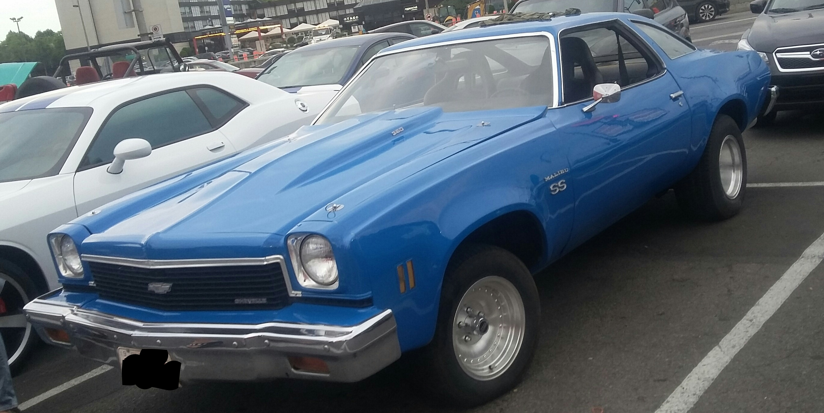 1973 Chevrolet Chevelle photographed in Montreal, Quebec, Canada at Gibeau Orange Julep.